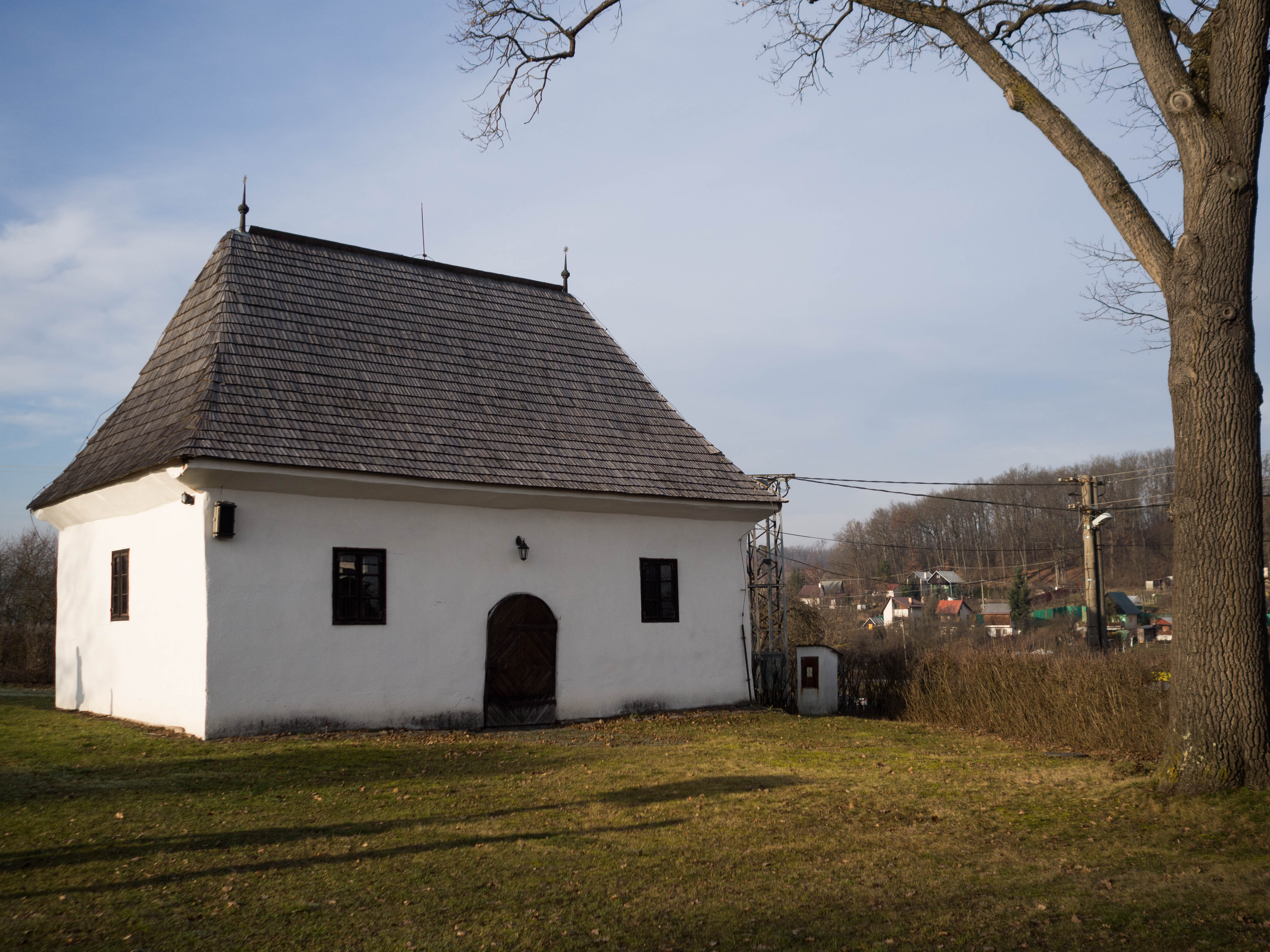 Lutheran Church in Dúžava, Slovakia. Wooden folk structure from 1786.